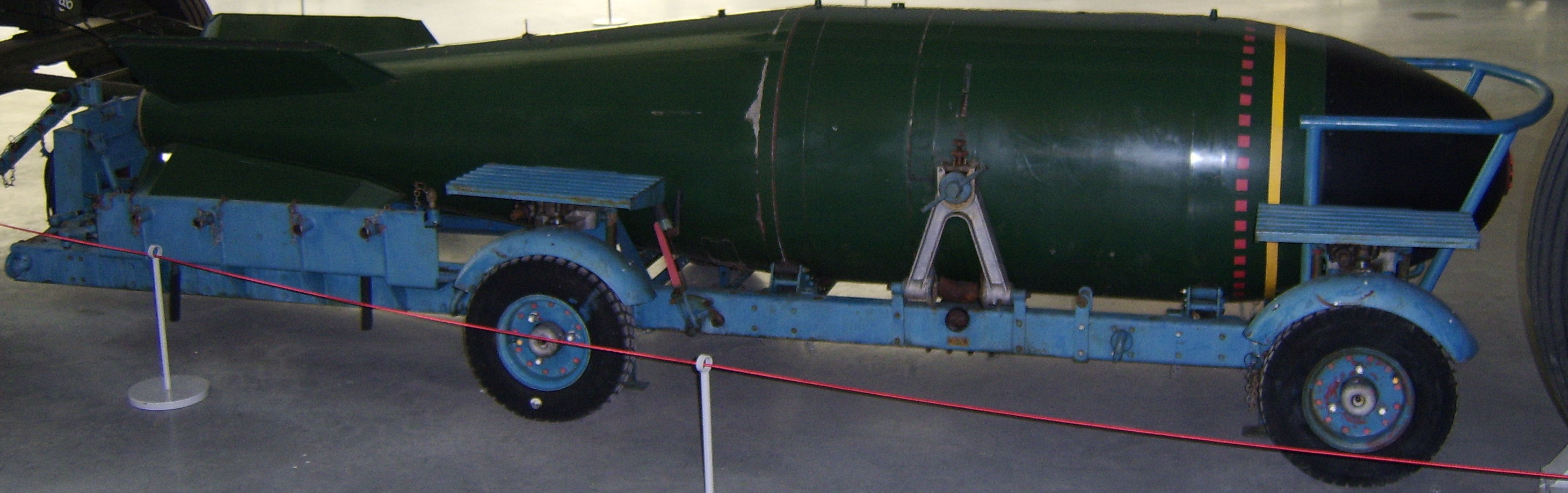 As taken on 03/06/07 (that is the third of June) at RAF Cosford by myself 'Paul Collins'